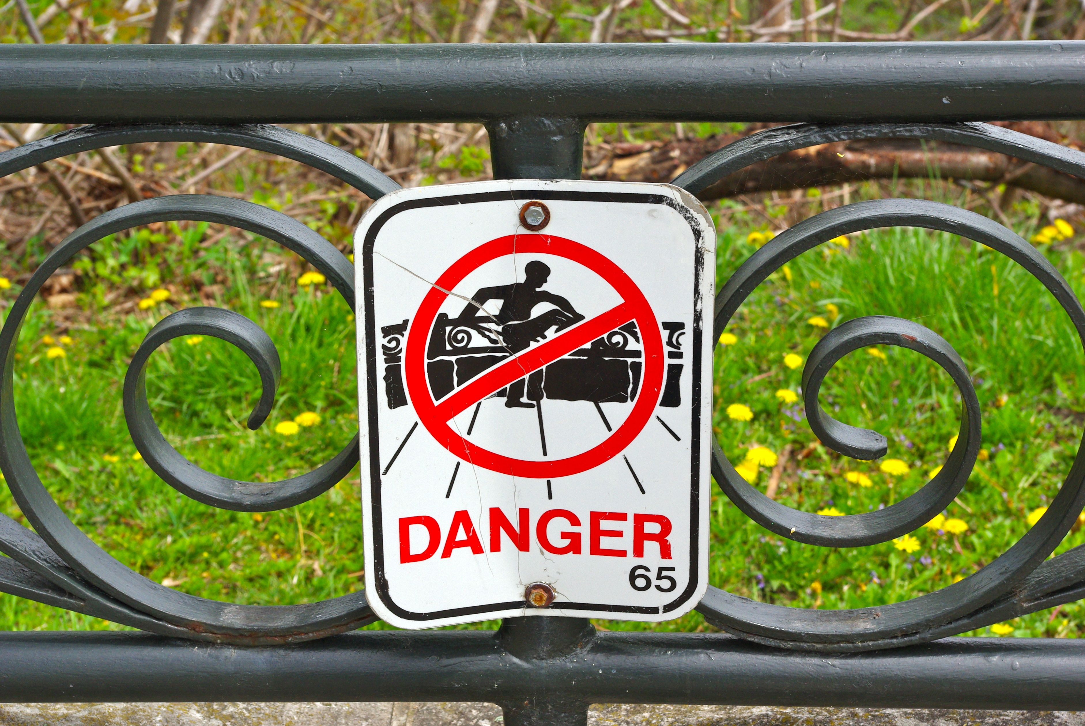 Warning sign in Niagara Falls, Ontario, warning people not to climb over guard rail, 2010. Other information Photo by George Garrigues.